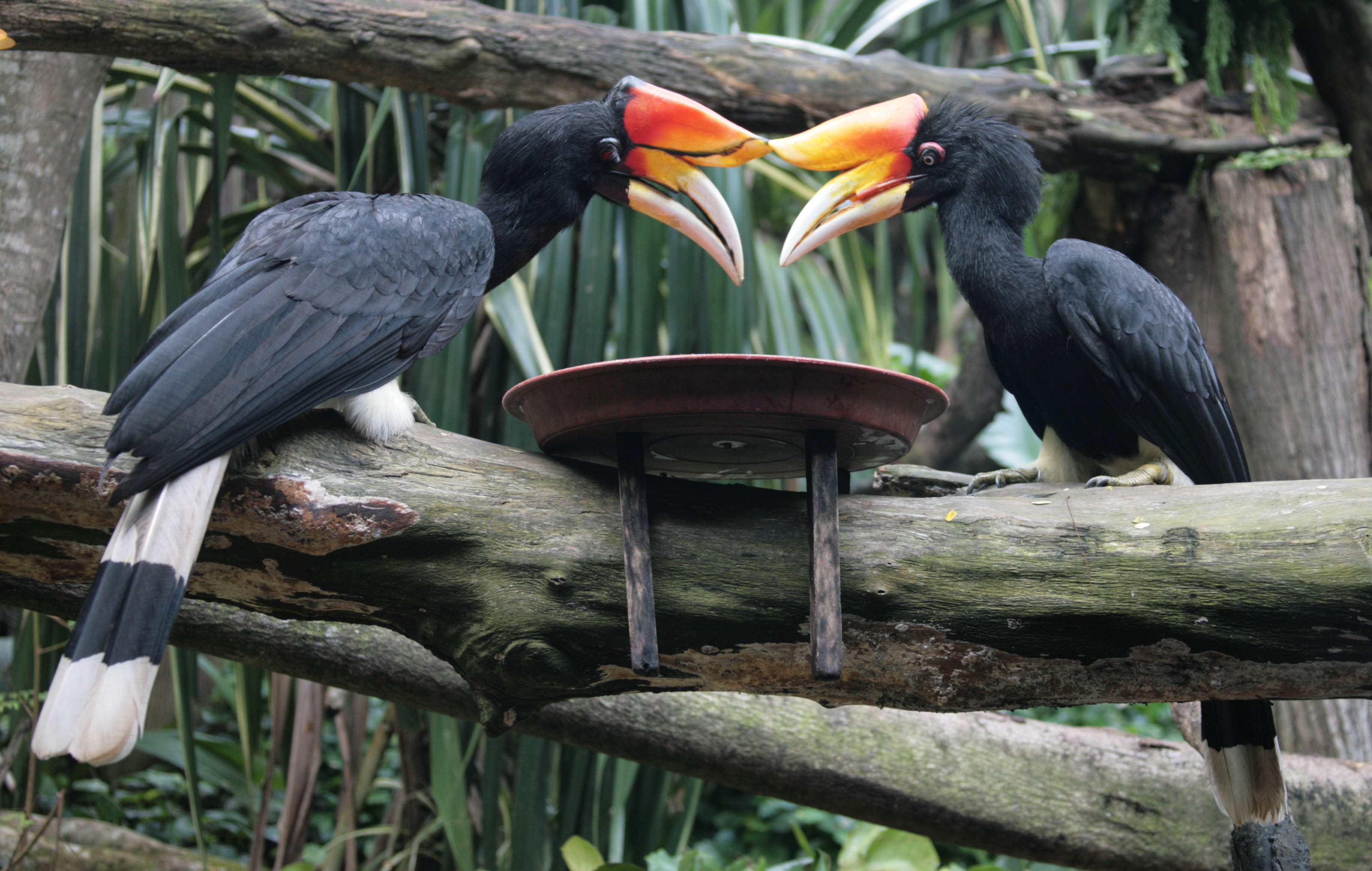 A pair of Rhinoceros Hornbills at Singapore Zoo.